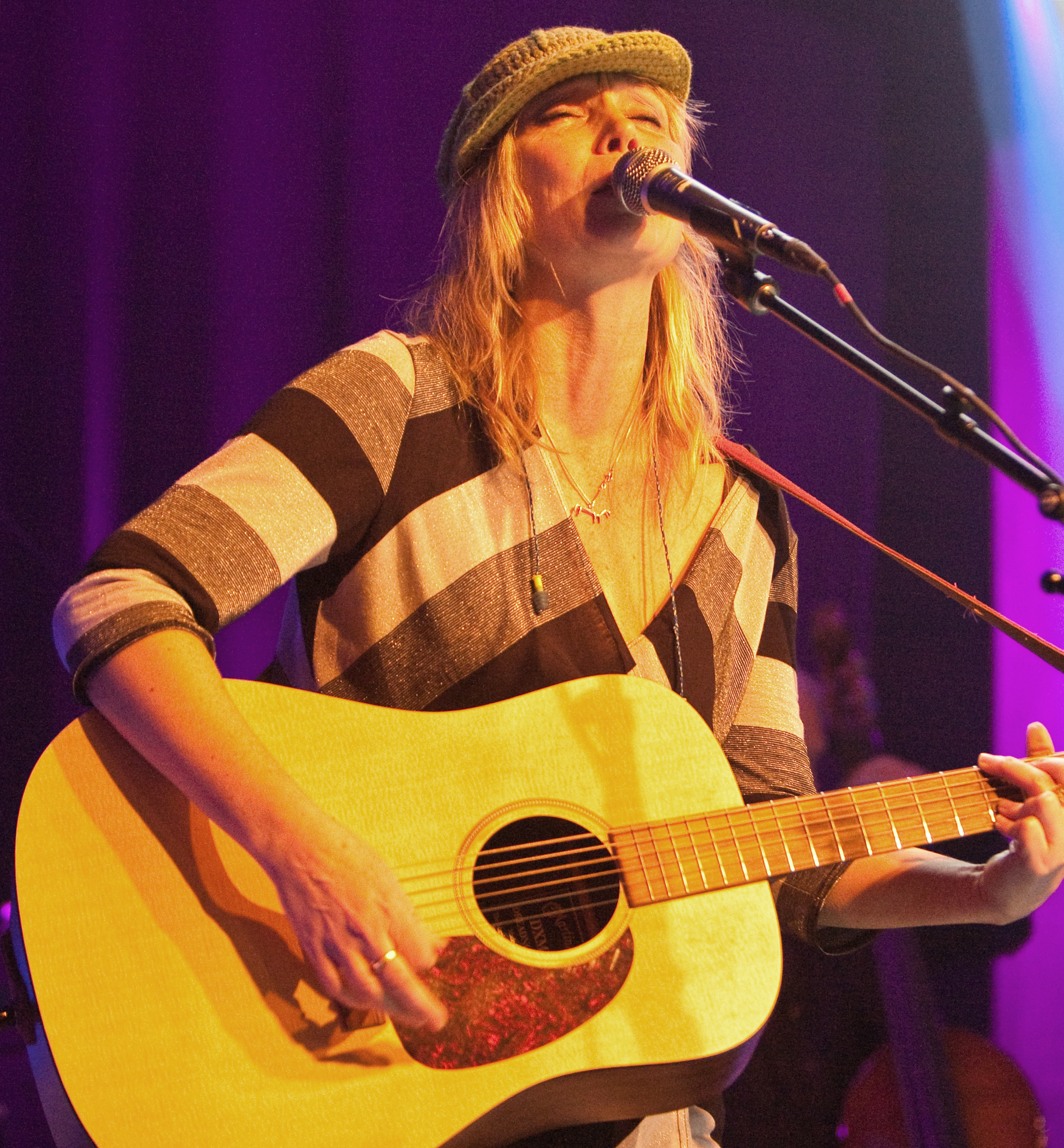 Maria Blom Cocke in Jenny Bohman memorial concert 2011